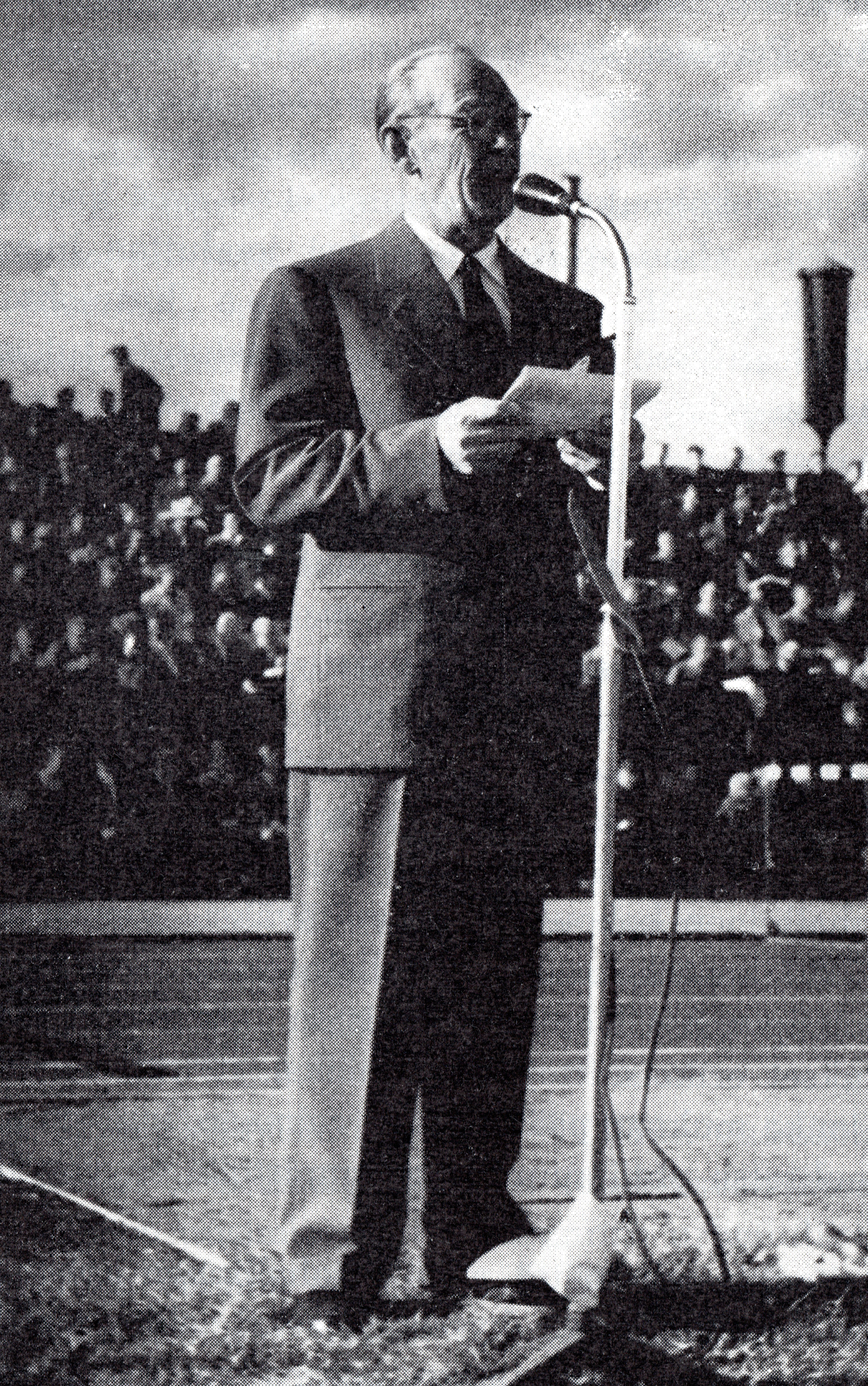 Väinö Teivaala - Chairman of Finnish sport organization, SVUL Athletics 1924-26